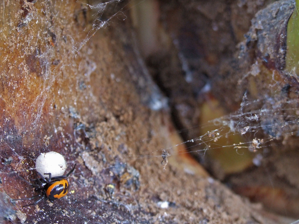 Steatoda paykulliana, False widow spider